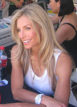 Heather Thomas signing books at Book Soup's Festival of Books booth